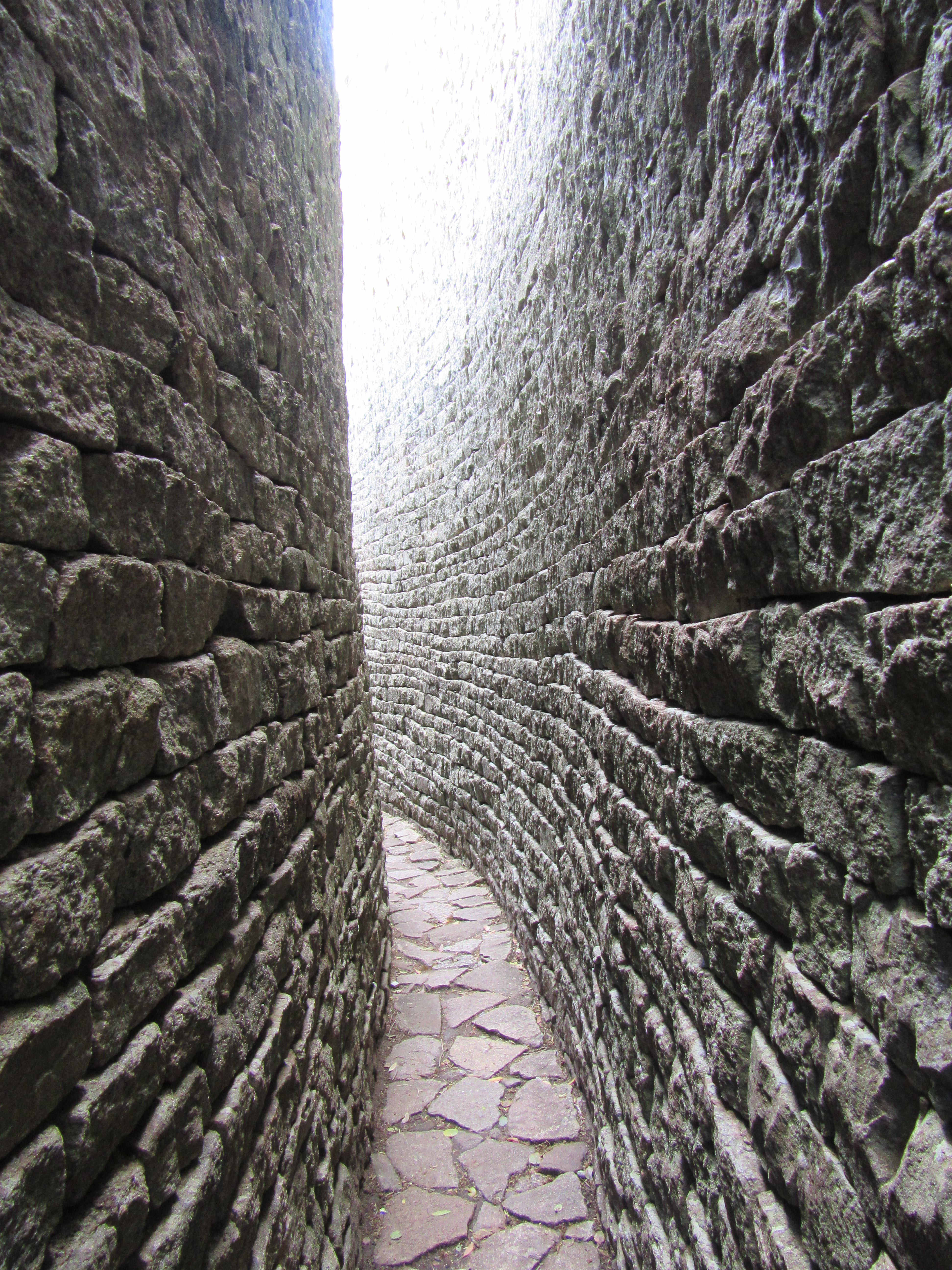 curved passageways circling the Great Enclosure Great Zimbabwe